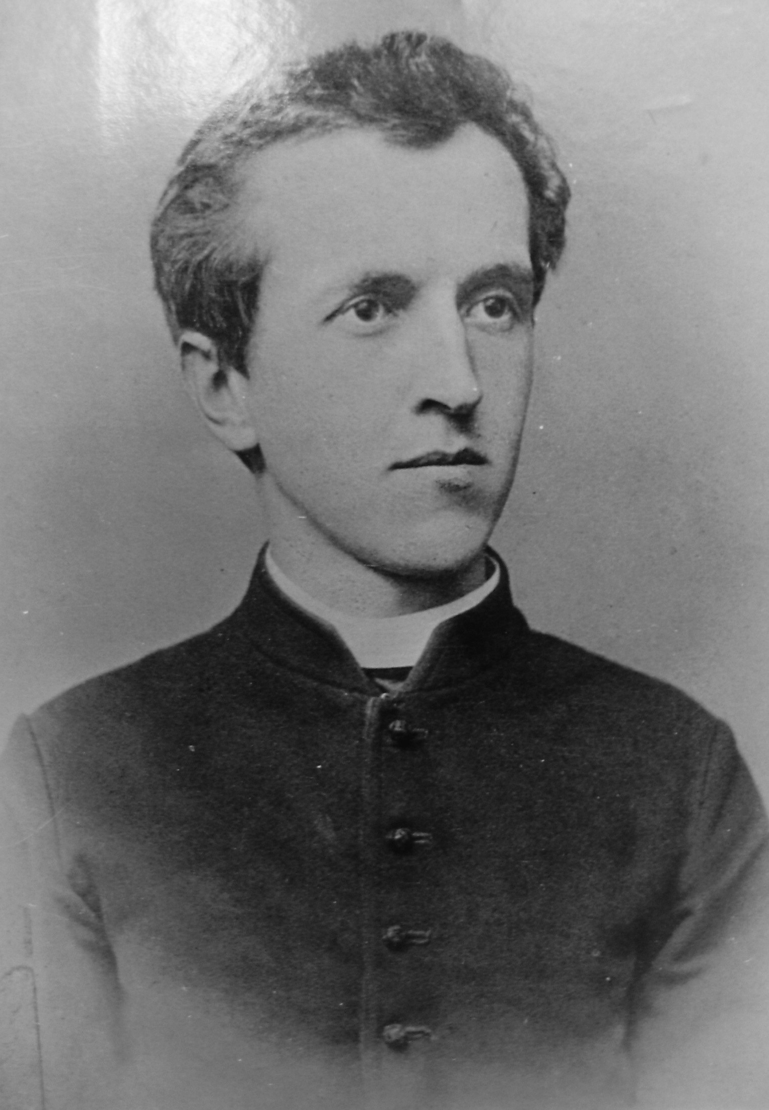 Alois Musil 1891